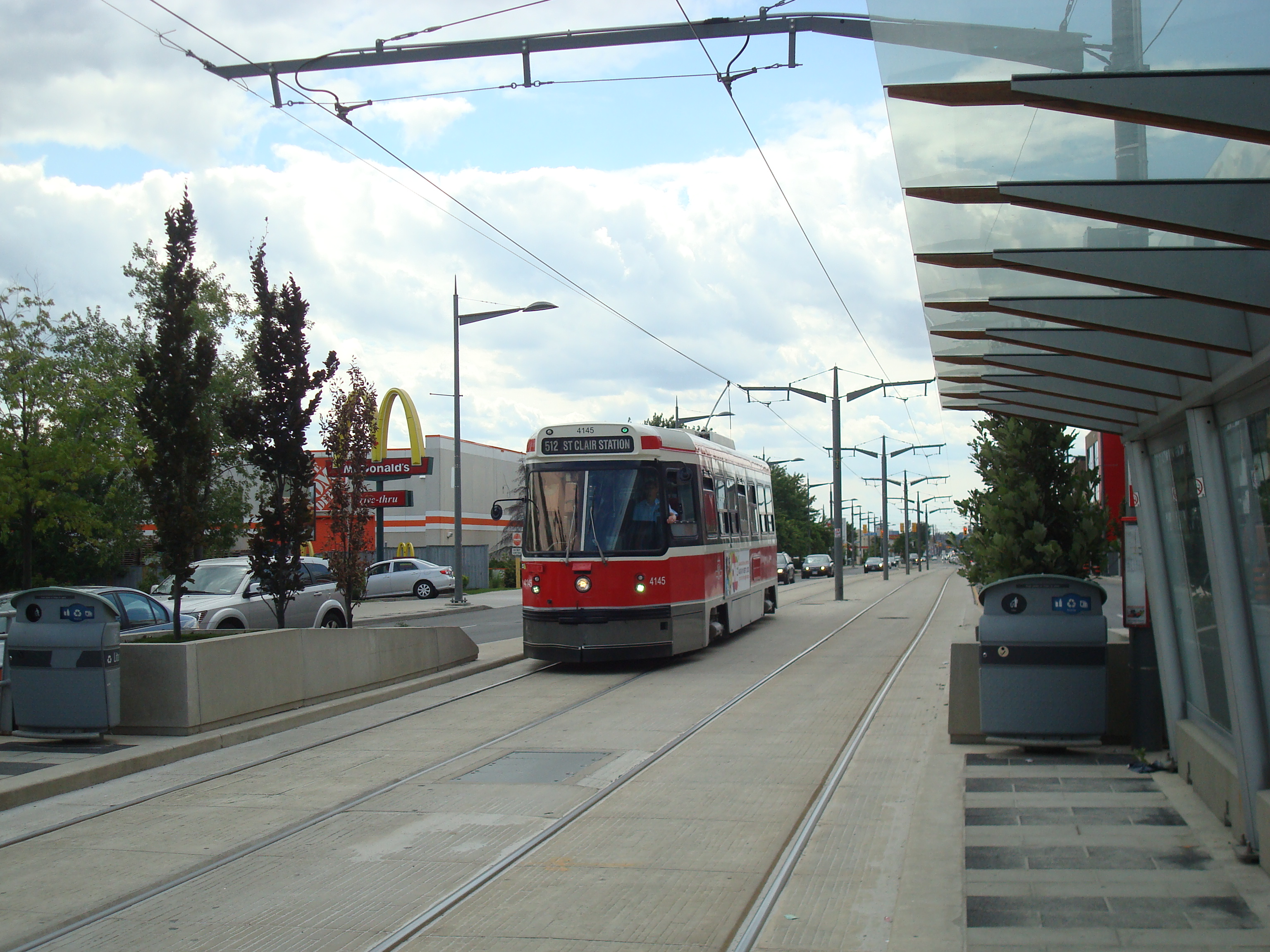 Toronto Transit Commission CLRV 4145 on the 512 St. Clair route heads east on St. Clair Avenue towards Keele Street on August 11, 2013.